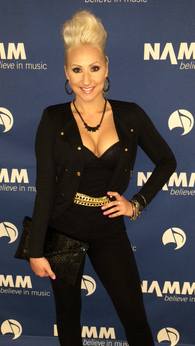 Djoir Jordan on the Red Carpet at NAMM in January 2015